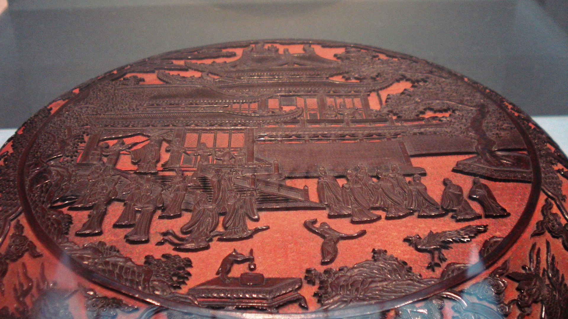 A Ming dynasty Chinese box (c. 1490s AD) made of carved lacquer over wood, with decorations of the palace of the Chinese moon Goddess Chang'e, displaying outdoor courtyards, trees, buildings, and denizens of the moon including a rabbit that pounds the elixir of immortality with a pestle and mortar, a three-legged toad (referencing the story of when Chang'e landed on the moon) and groups of Chinese scholars. The signature of the artisan Wang Ming (fl. late 15th century) is inscribed on the right column of the palace scene.